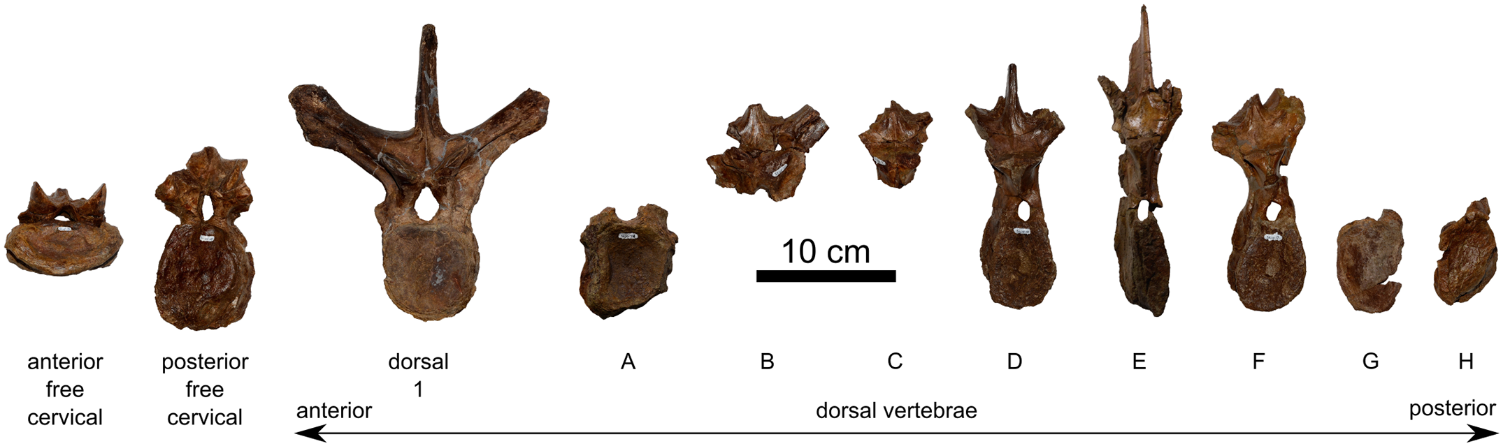 Vertebrae of Spiclypeus shipporum gen et sp. nov. (CMN 57081) in anterior view. Vertebrae A–H are dorsals of indeterminate position.